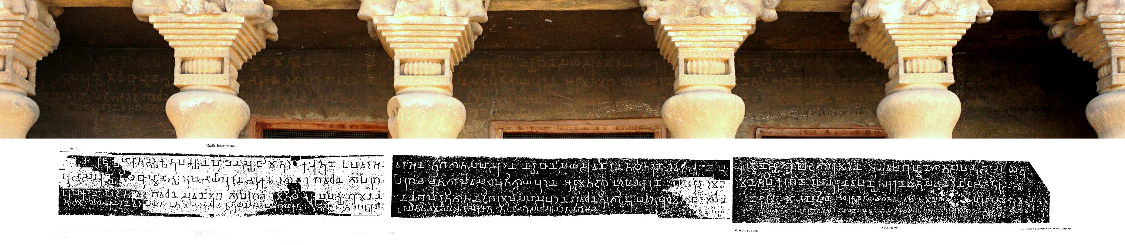 Inscription No.10 Cave No.10 Nasik caves (longitudinal layout according to original inscription)